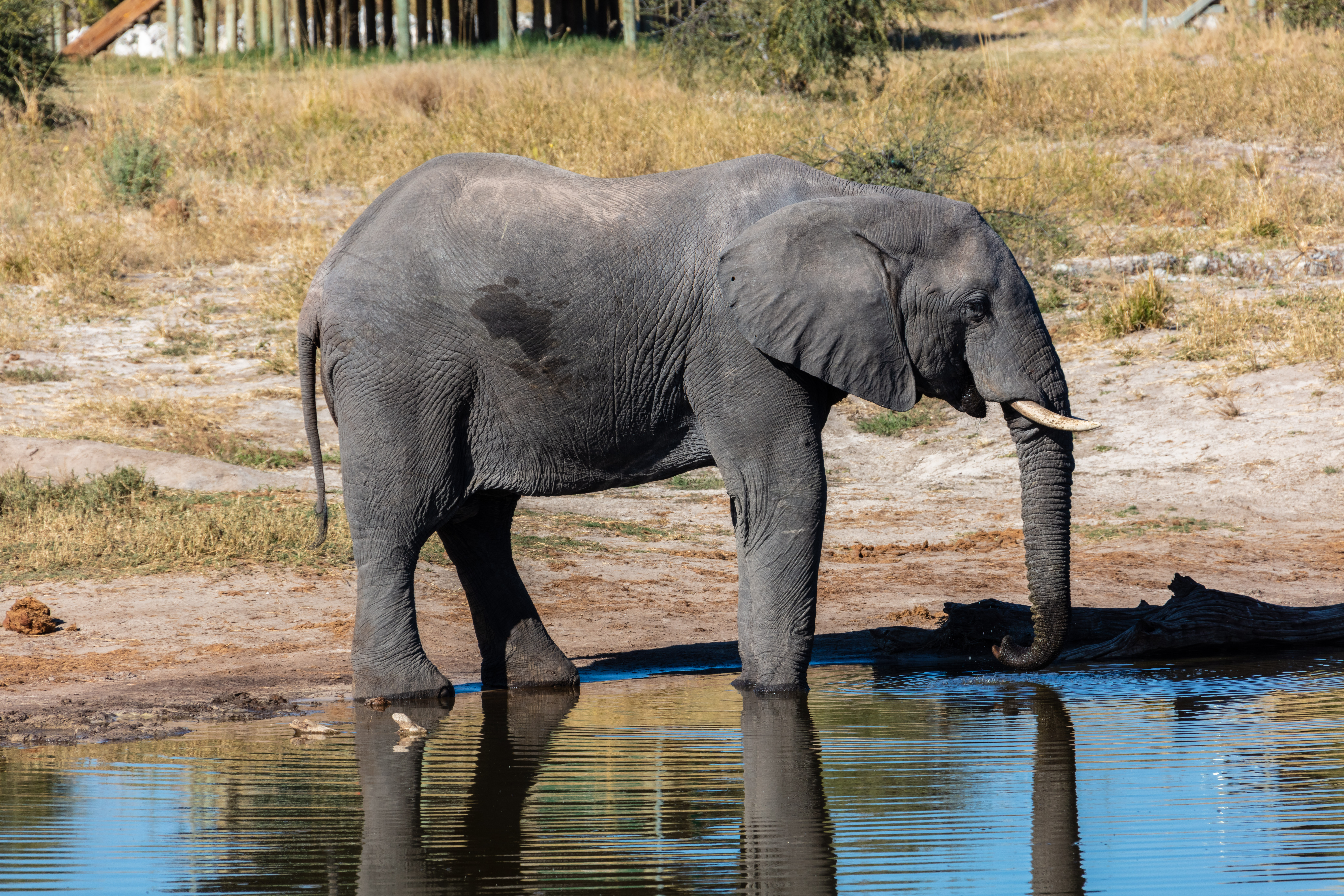 African bush elephant (Loxodonta africana), Elephant Sands, Botsuana